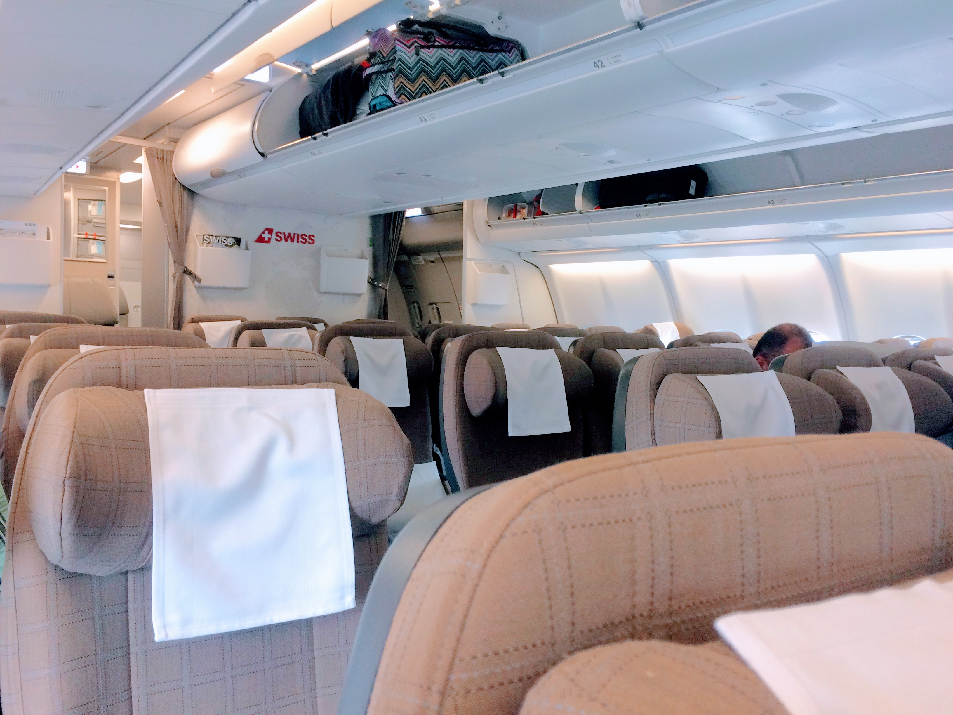 Swiss Air Airbus A330 interior